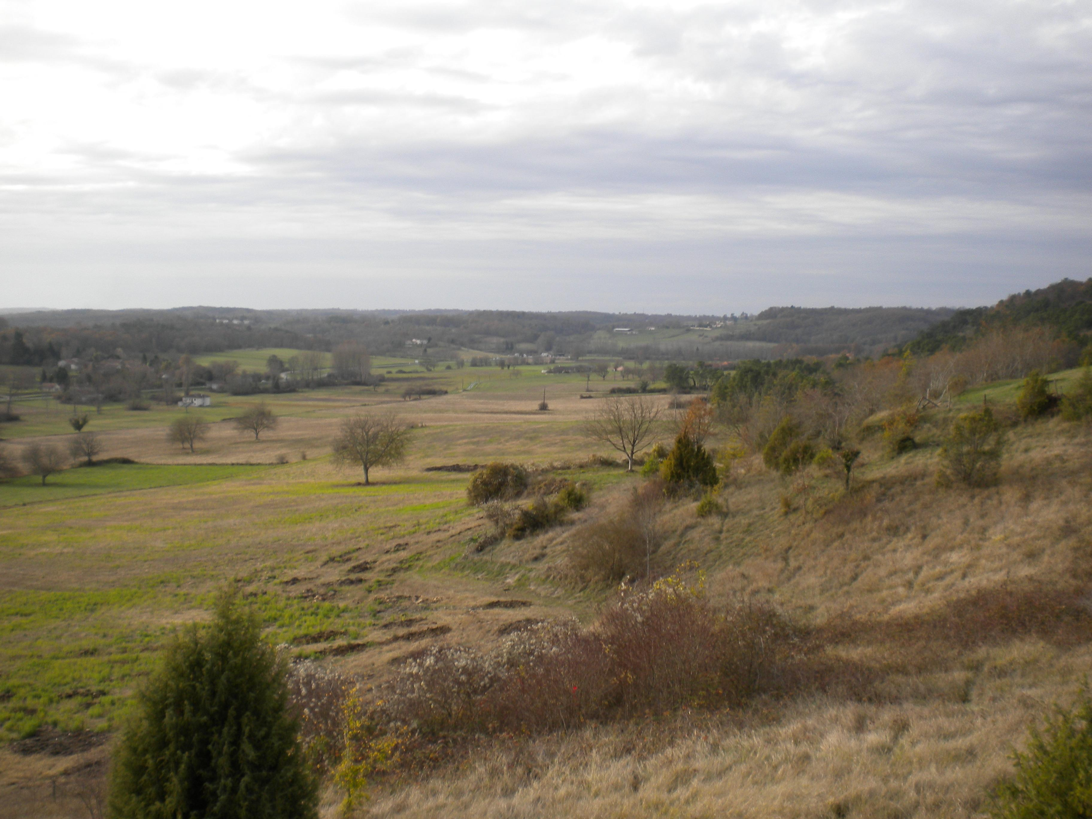 Valley southwest of Saint-Crépin-de-Richemont (Dordogne, France). Photo taken from the hamlet of Grange Haute from the ESE. The valley houses the trace of the Mareuil Fault - the fault runs next to the D 939 visible at the left. Along the fault the compartment on the left has been upthrusted by about 100 meters.